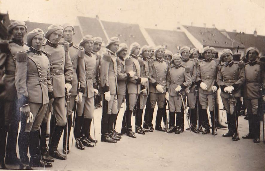 Sublocotenentul Popentiu Gheorghe din Batalionul 3 Vanatori de munte "Prințul Frederic de Hohenzollern". la Sibiu in Piata Mare, al doilea din dreapta.